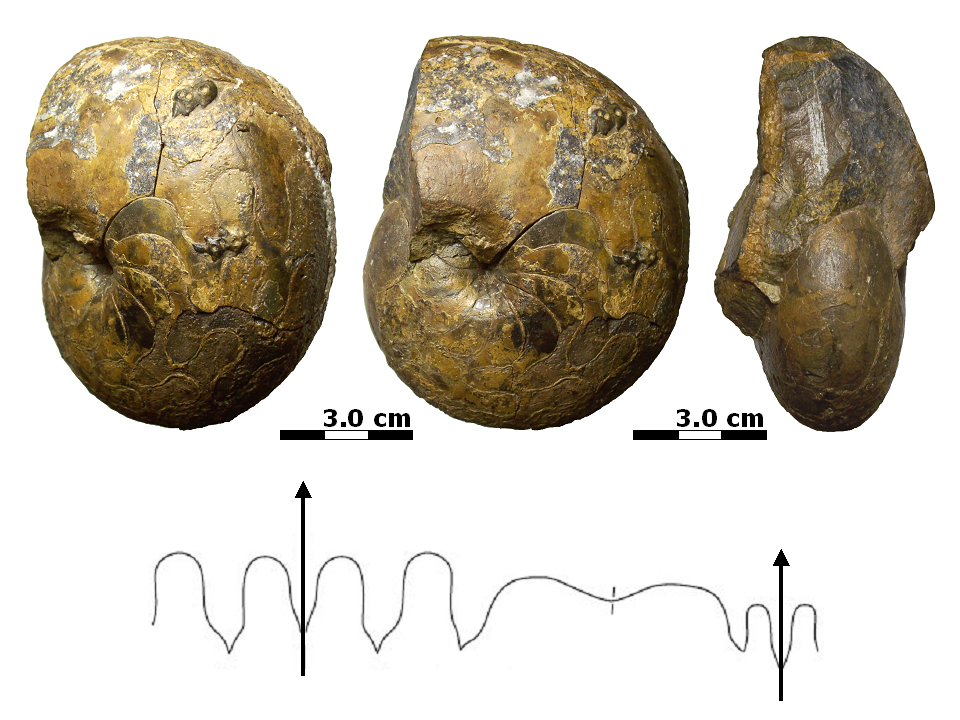 Ammonoid belonging to the genus Sporadoceras Hyatt. From Late Devonian (Famennian) of Morocco. The sutural pattern is reported. The specimen is an internal cast of a phragmocone with part of the body chamber. Maximum diameter: 8.7 cm; maximum whorl height: 5.0 cm; maximum whorl width: 4.5 cm.